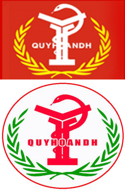 Đây là hình ảnh biểu trương của Bệnh viện Phong-Da liễu Trung ương Quy Hòa thường dùng.